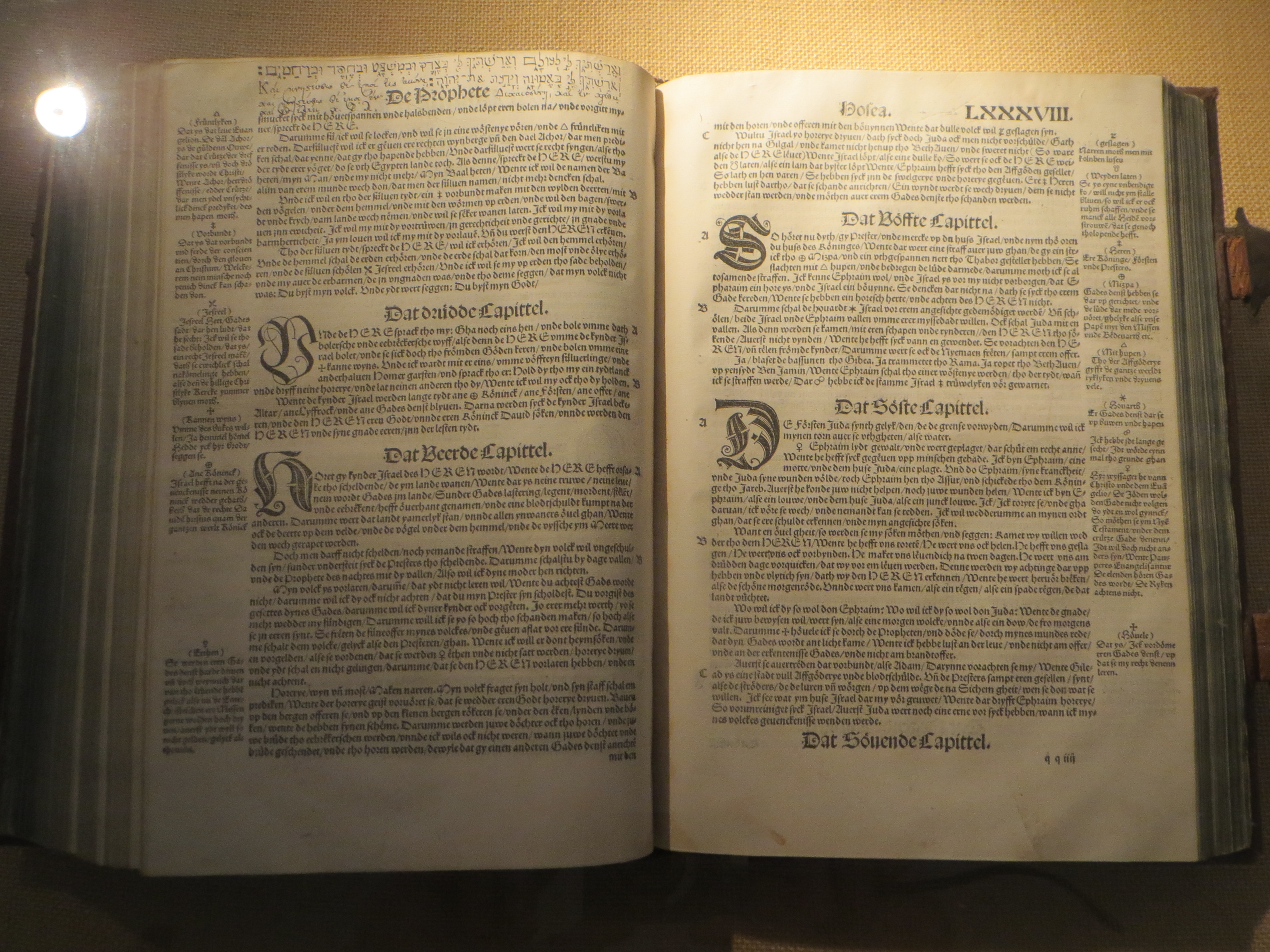 Niederdeutsches Bibelzentrum St. Jürgen